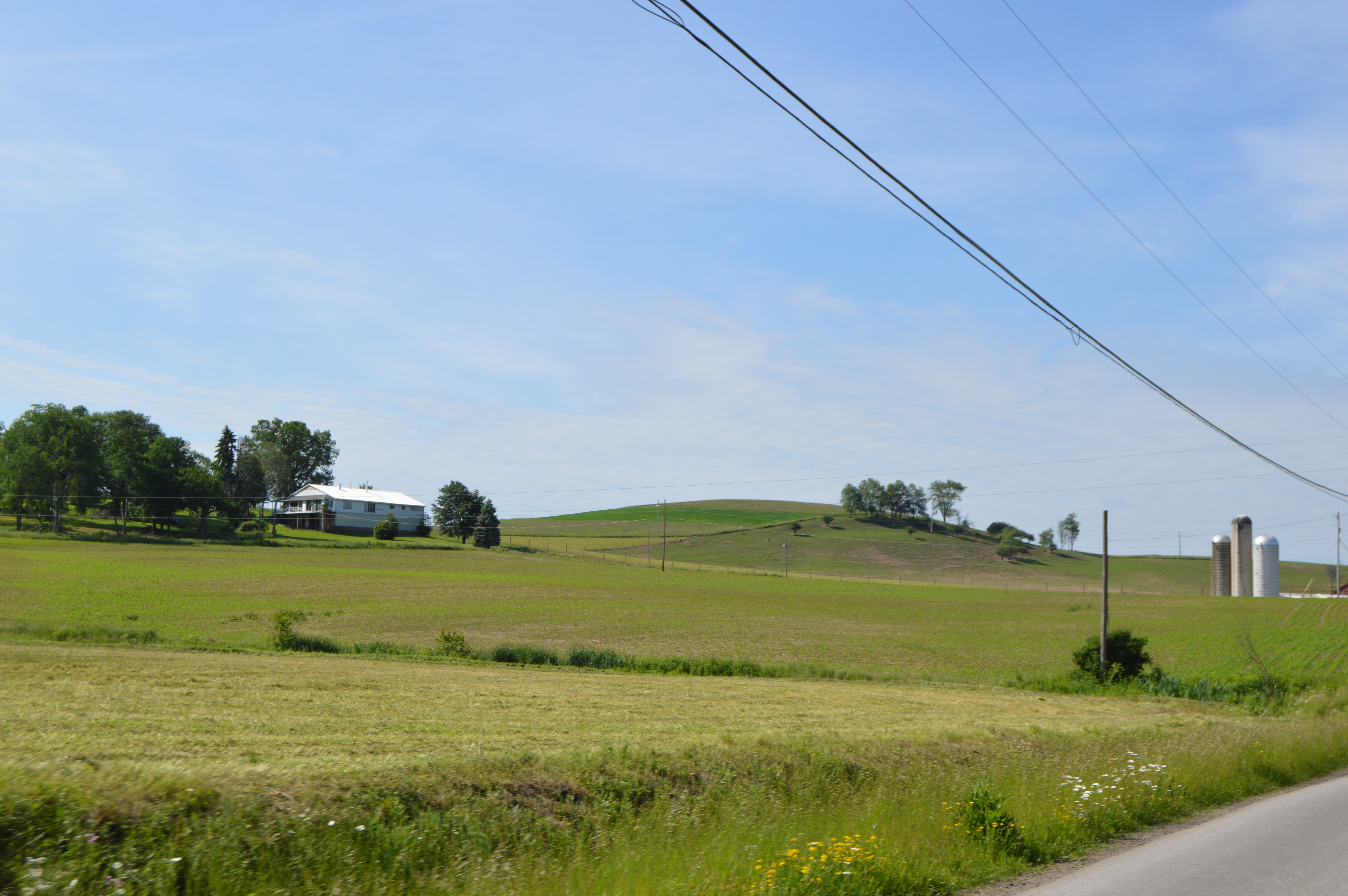 Fields along the eastern side of Crum Road northeast of Turkey City in far southern Salem Township, Clarion County, Pennsylvania, United States.